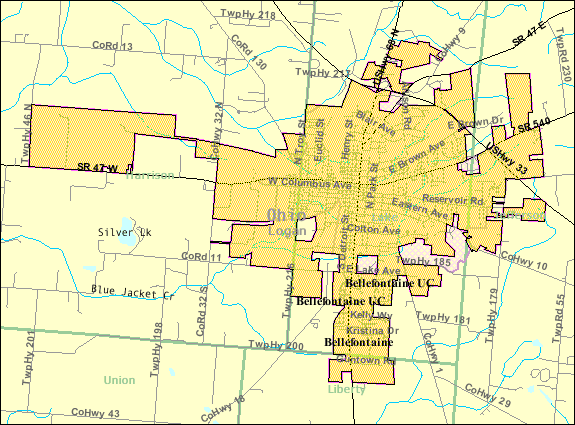 Map of Bellefontaine, a city in Logan County, Ohio, United States, with its boundaries at the time of the 2000 census.